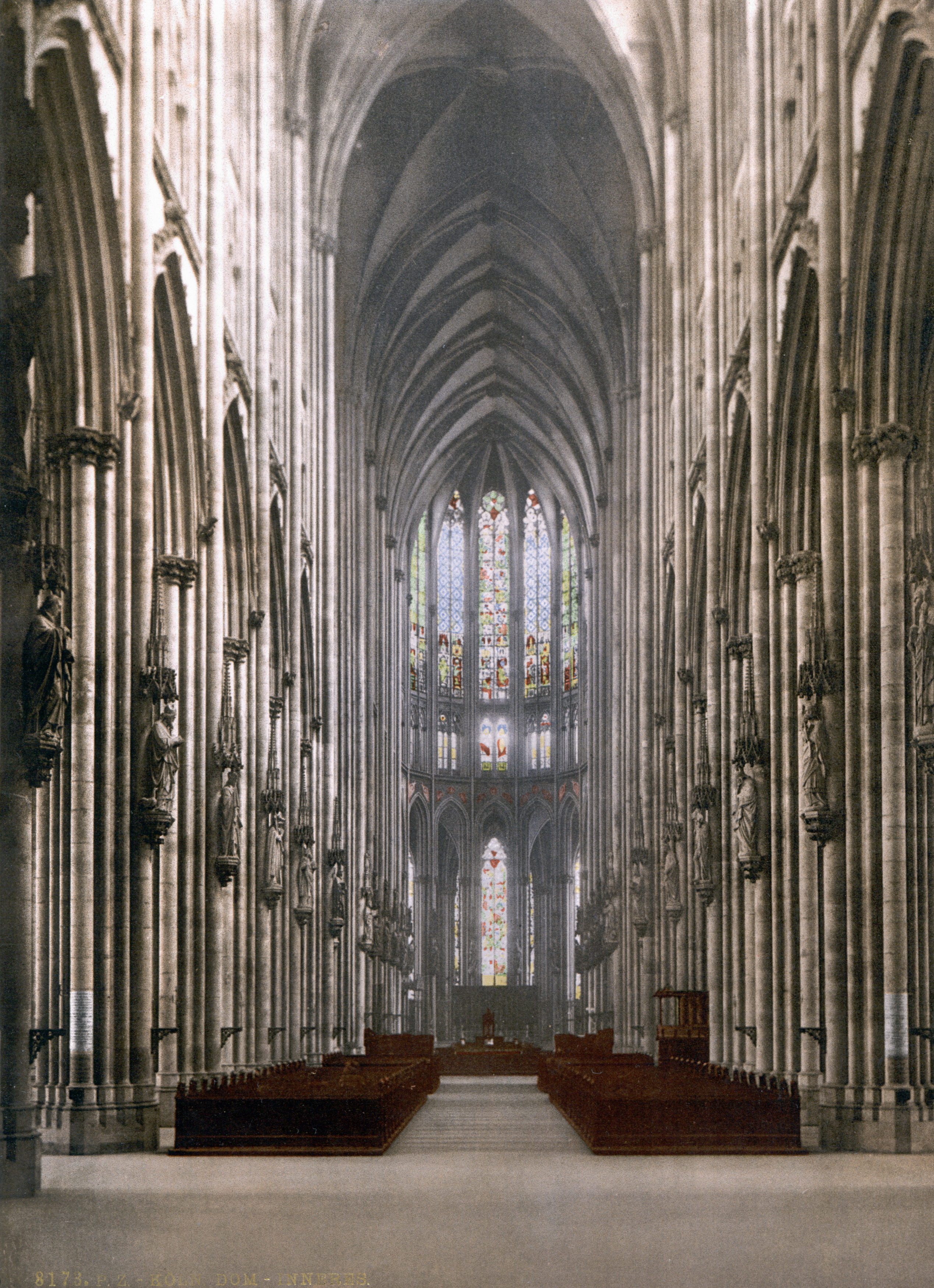 The cathedral interior, Cologne, the Rhine, Germany, 1890-1900